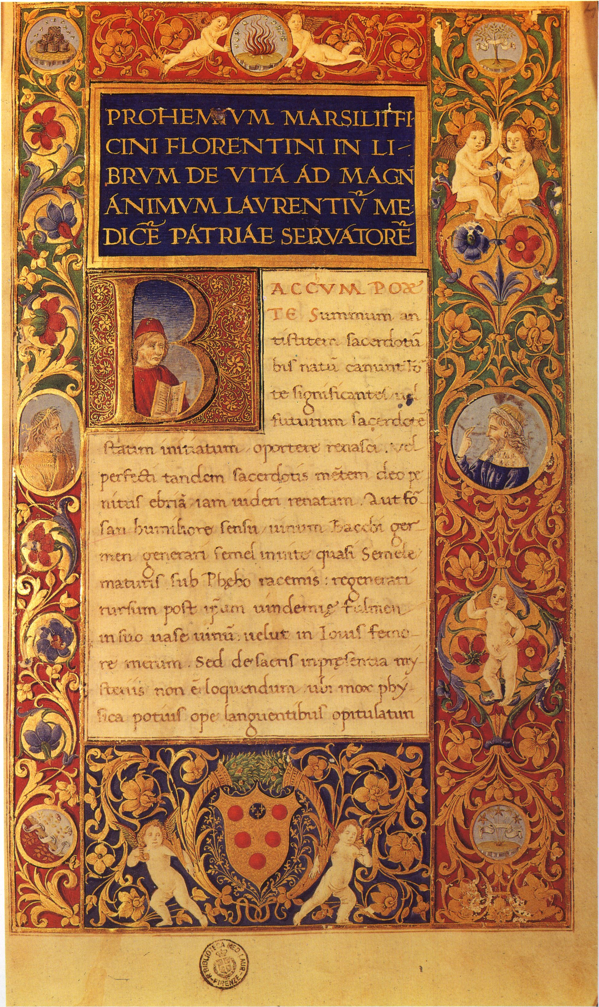 Marsilio Ficino, De vita, preface, in ms. Florence, Biblioteca Medicea Laurenziana, Plut. 73.39, fol. 4r.